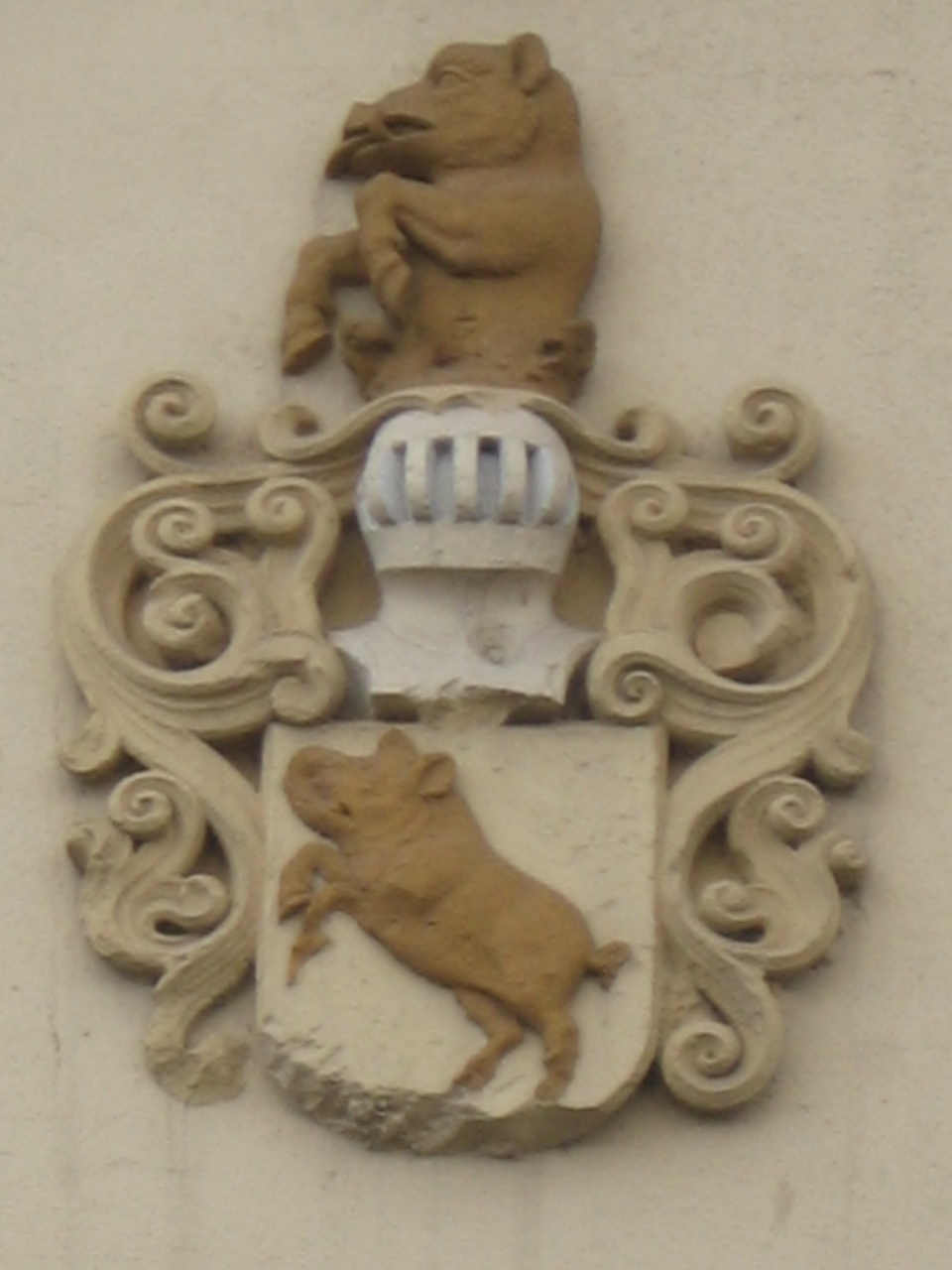 coat of arms of families: Świnkowie von Schweinchen from Silesia photographed in Pawłowice farm in Wrocław, Poland